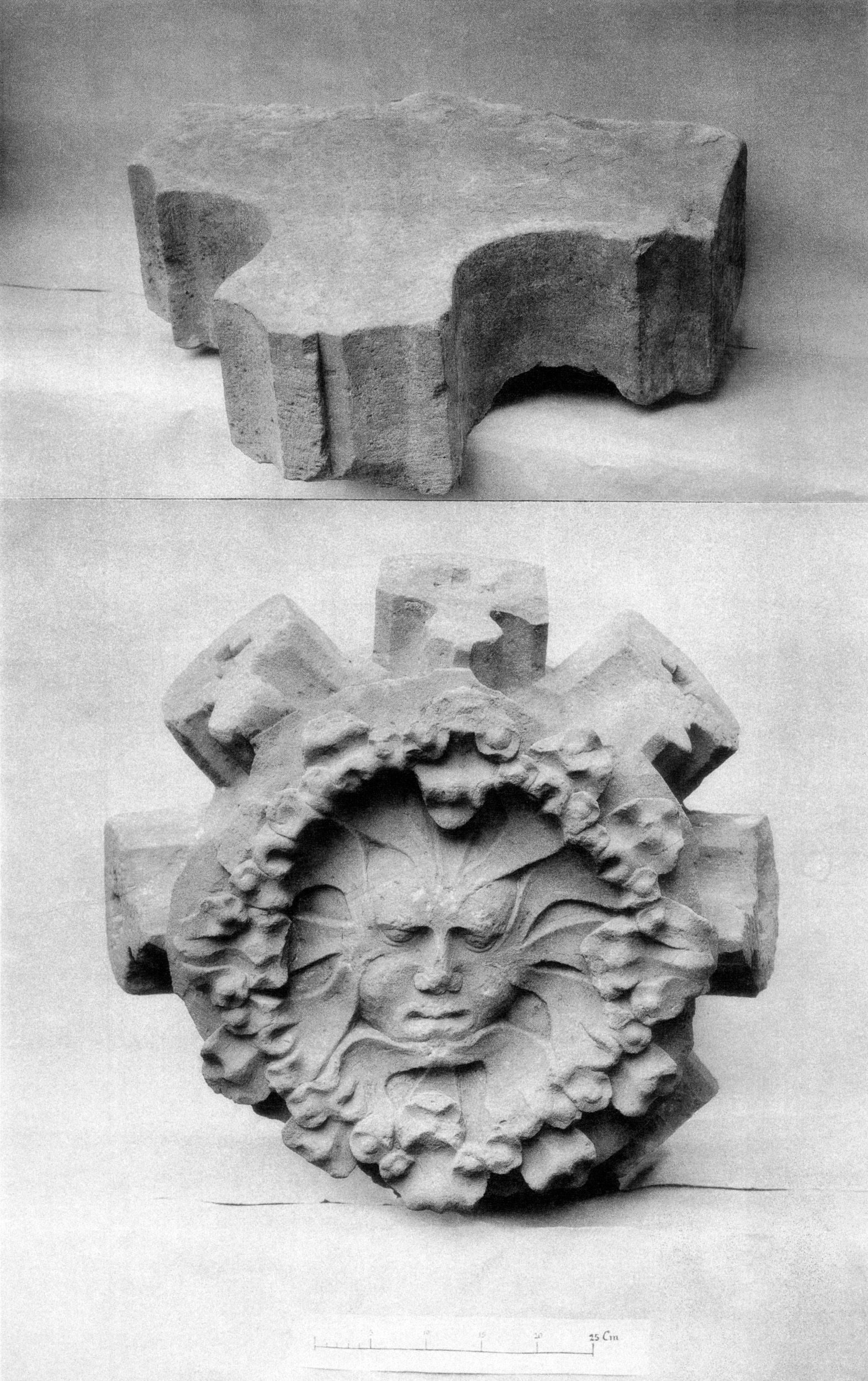 Frankfurt on the Main: Remains of the Katharinenkapelle (Saint Catherine's Chapel) of the Alte Brücke (Old Bridge) found in 1866 (bottom) and 1878 (up) dating from the 14th century